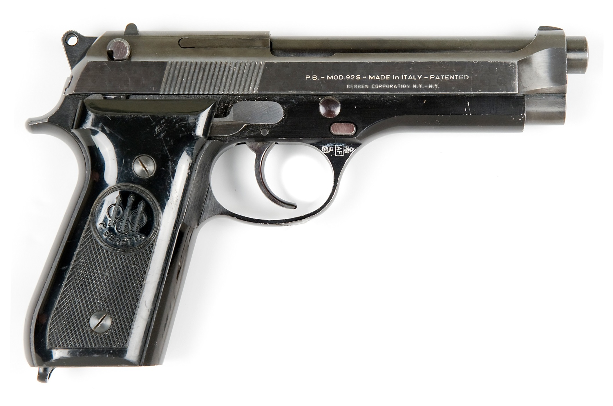 Picture of Beretta Make: Beretta Model: 92S Caliber: 9mm